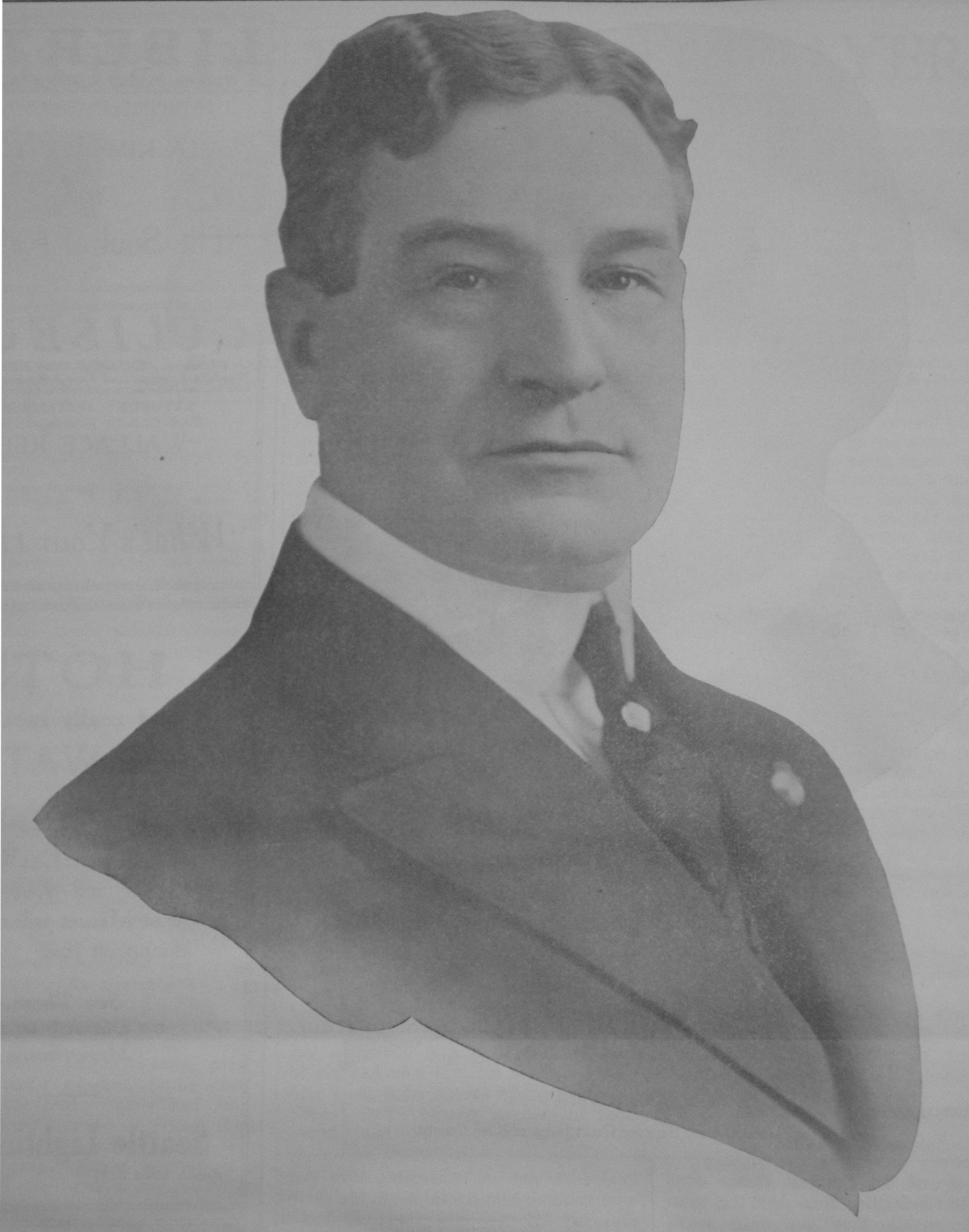 John Franklin Miller, Washington Republican congressman at the time. Also Mayor of Seattle 1908-1910.